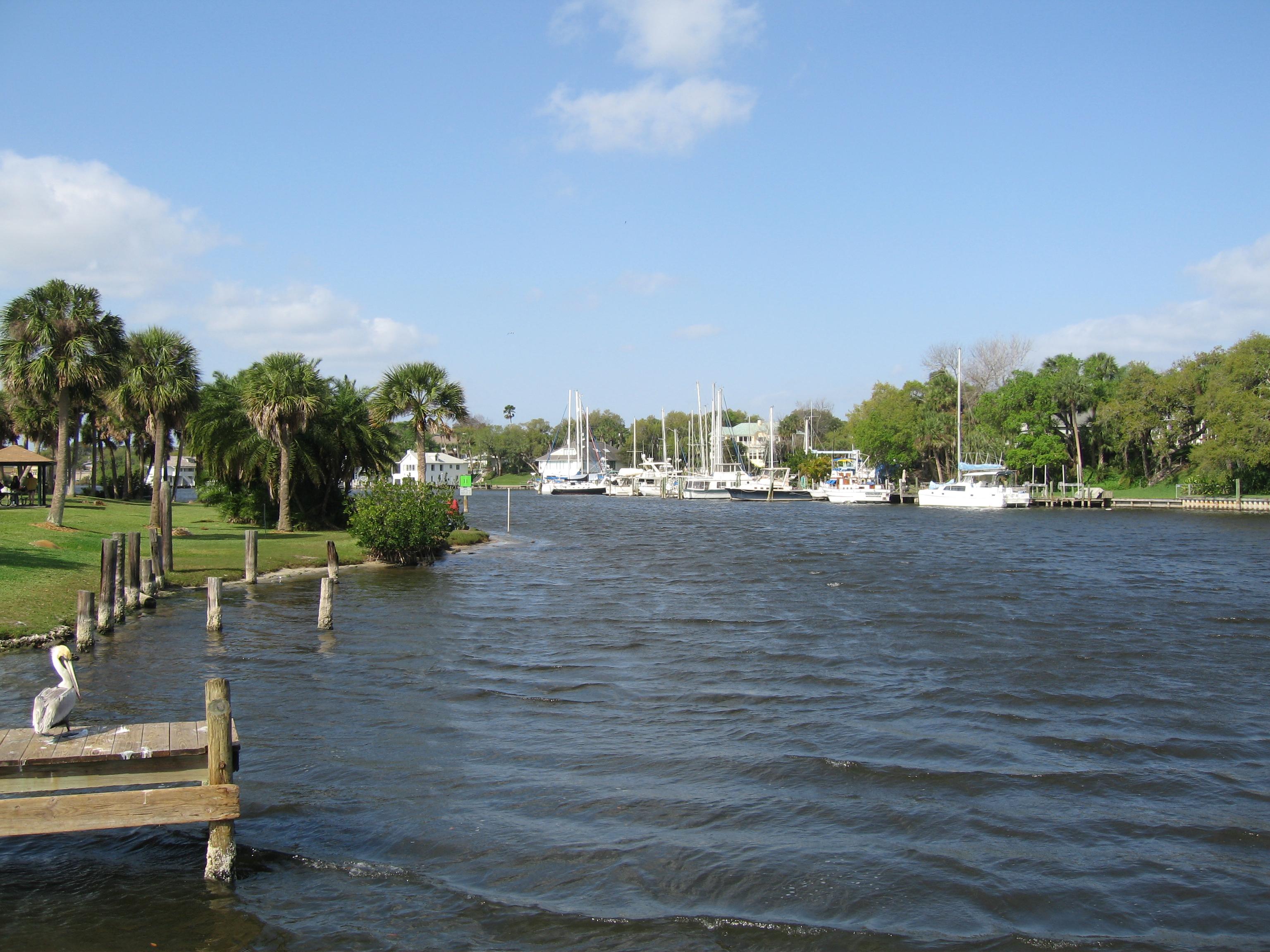 Eau Gallie River with the edge of Ballard Park on the left. Picture taken at Ballard Park, Melbourne, Florida. Photograph taken in March 2008 on the south bank of the river facing west.